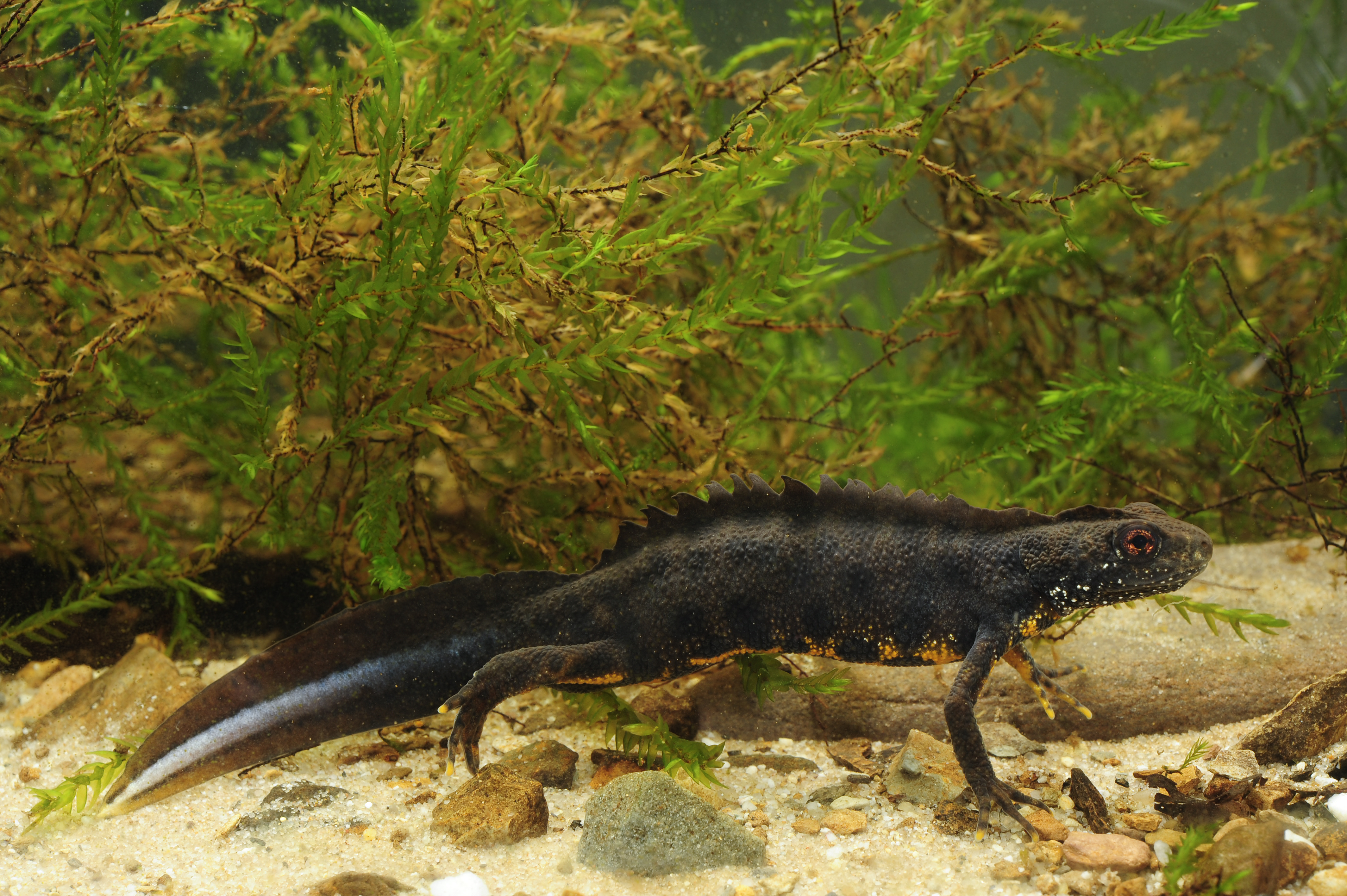 Triturus carnifex male